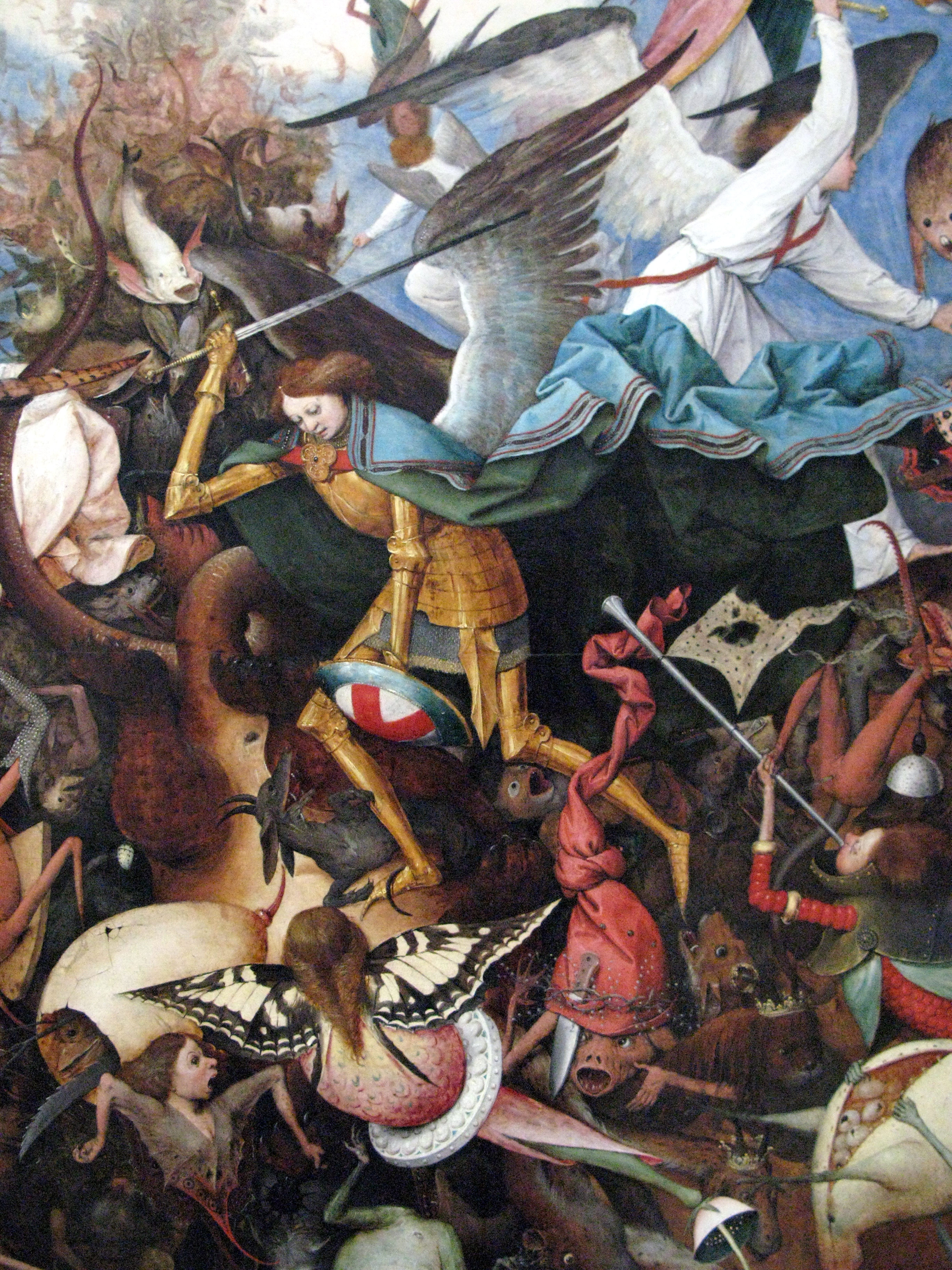 Pieter Bruegel the Elder - The Fall of the Rebel Angels (1562) Pieter Brueghel the Elder (1526/1530–1569) Alternative namesPieter Breugel, Pieter Breughel, Pieter Brueghel, Peasant BrueghelDescription Southern Netherlandish painter, draughtsman and printmaker Date of birth/deathbetween 1526 and 15309 September 1569Location of birth/deathBrueghel, Breda (?)BrusselsWork locationAntwerp (1551–1563), Italy (1553), Brussels (1563–1569)Authority controlVIAF: 95761864 | LCCN: n80162848 | GND: 118674013 | WorldCat | WP-Person